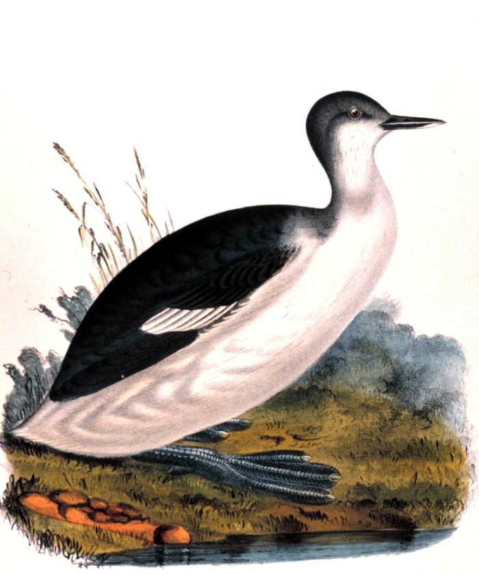 California Grebe (young), Podiceps californicus